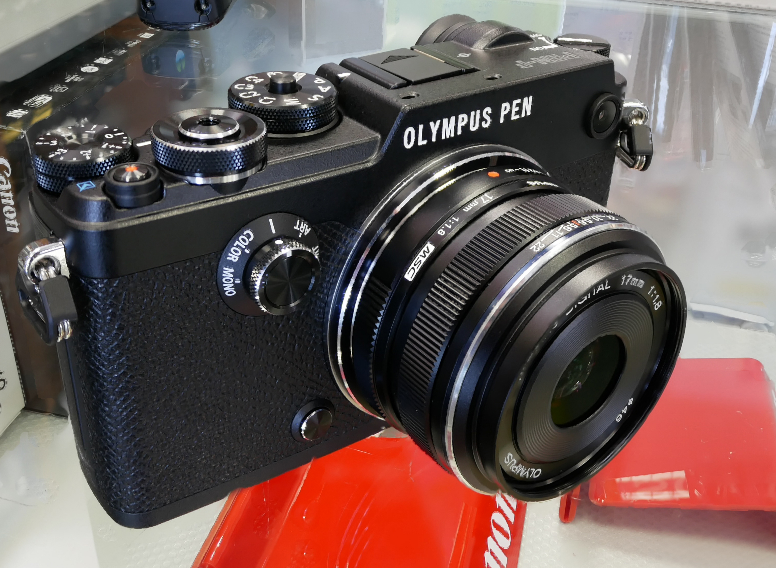 Olympus PEN-F (black) This photograph was taken with a Panasonic Lumix DMC-G85/G80.